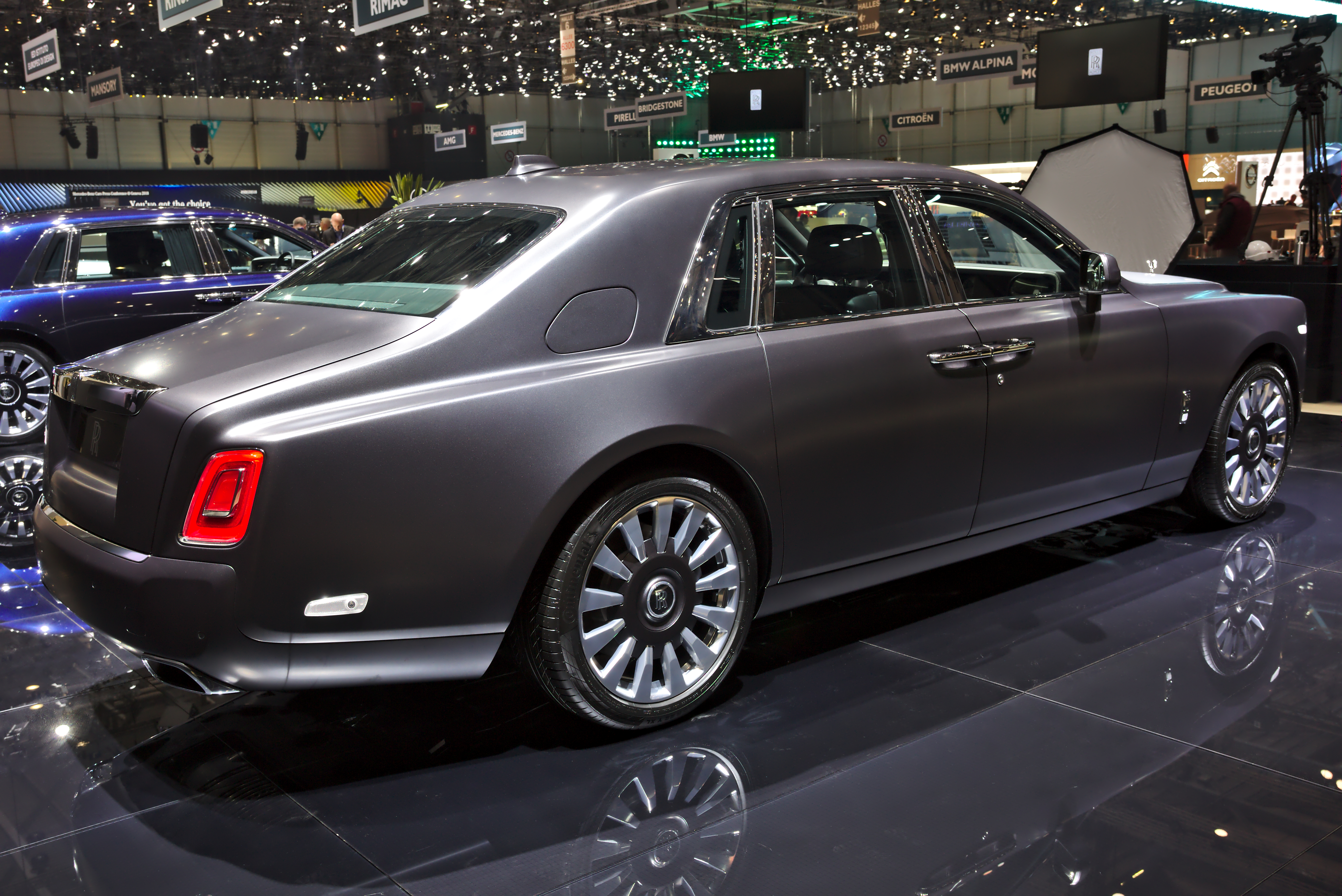 Rolls-Royce Phantom VIII at Geneva Motorshow 2018